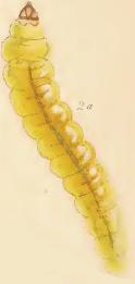 Stainton’s Natural History of the Tineina (1855–1873): Phyllonorycter staintonella larva